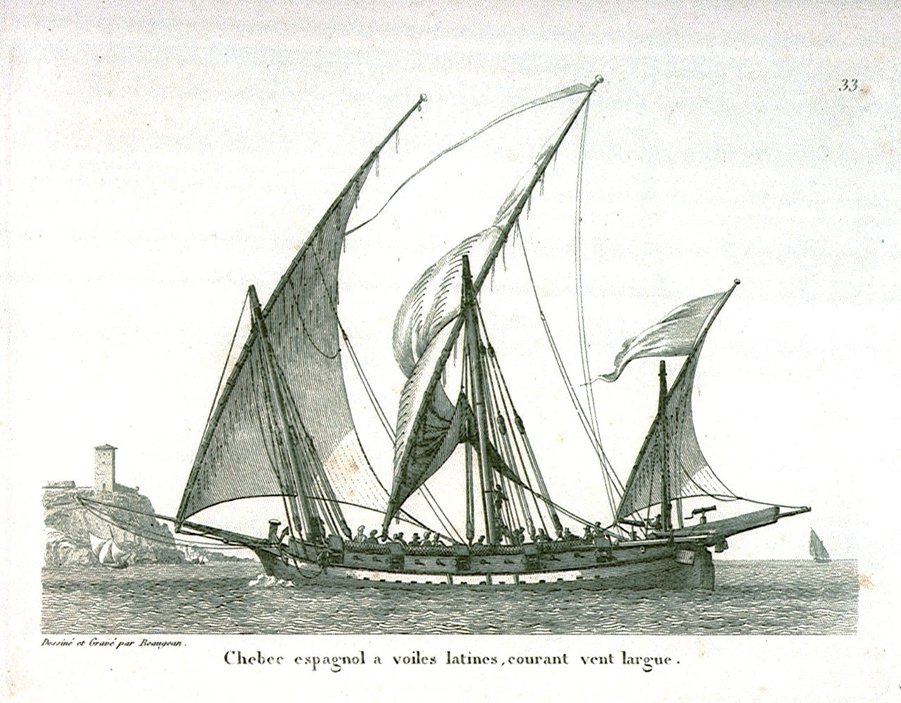 Xebec Spanish in 1826.